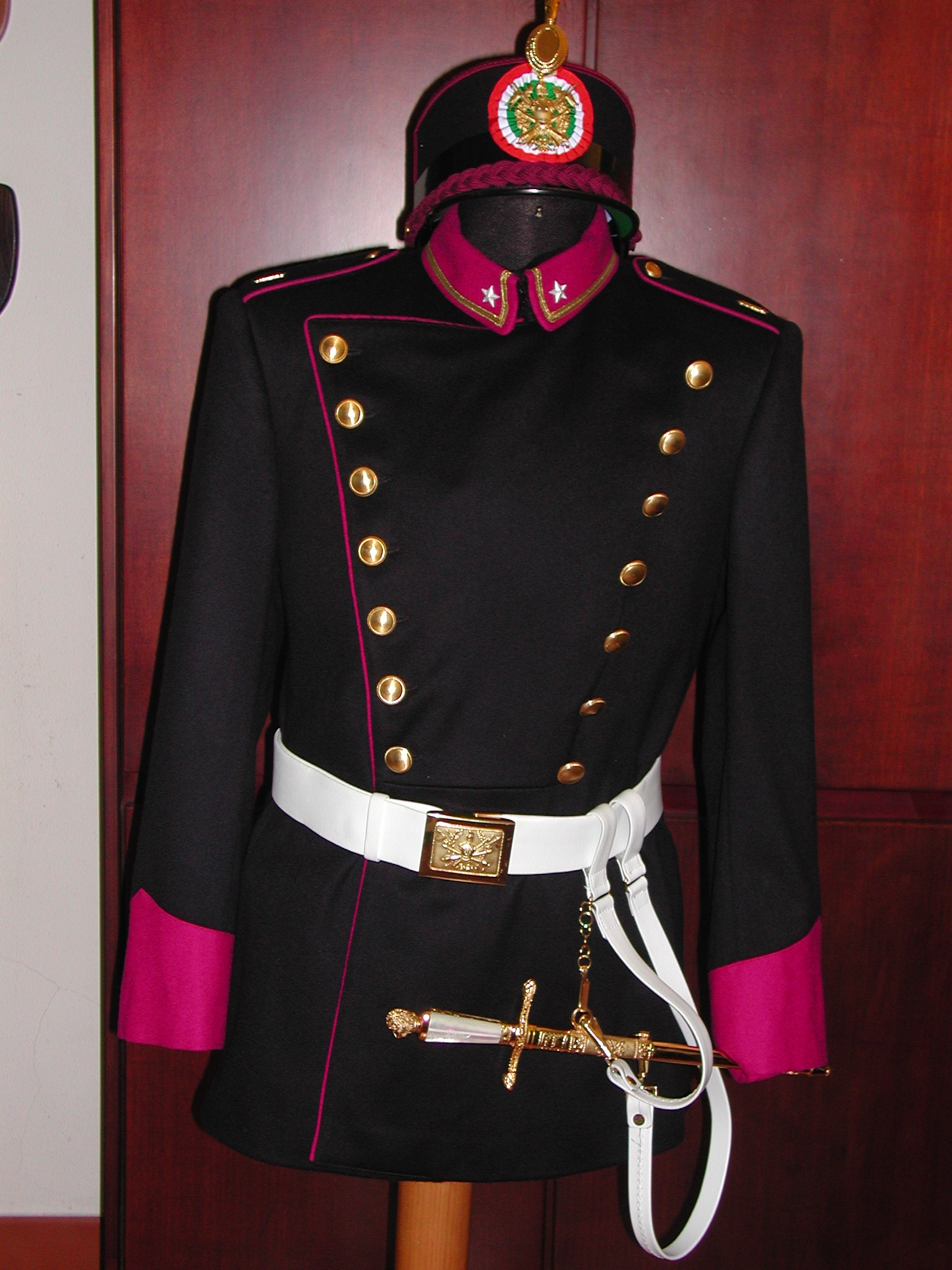 Historical uniform of the Accademia Militare di Modena